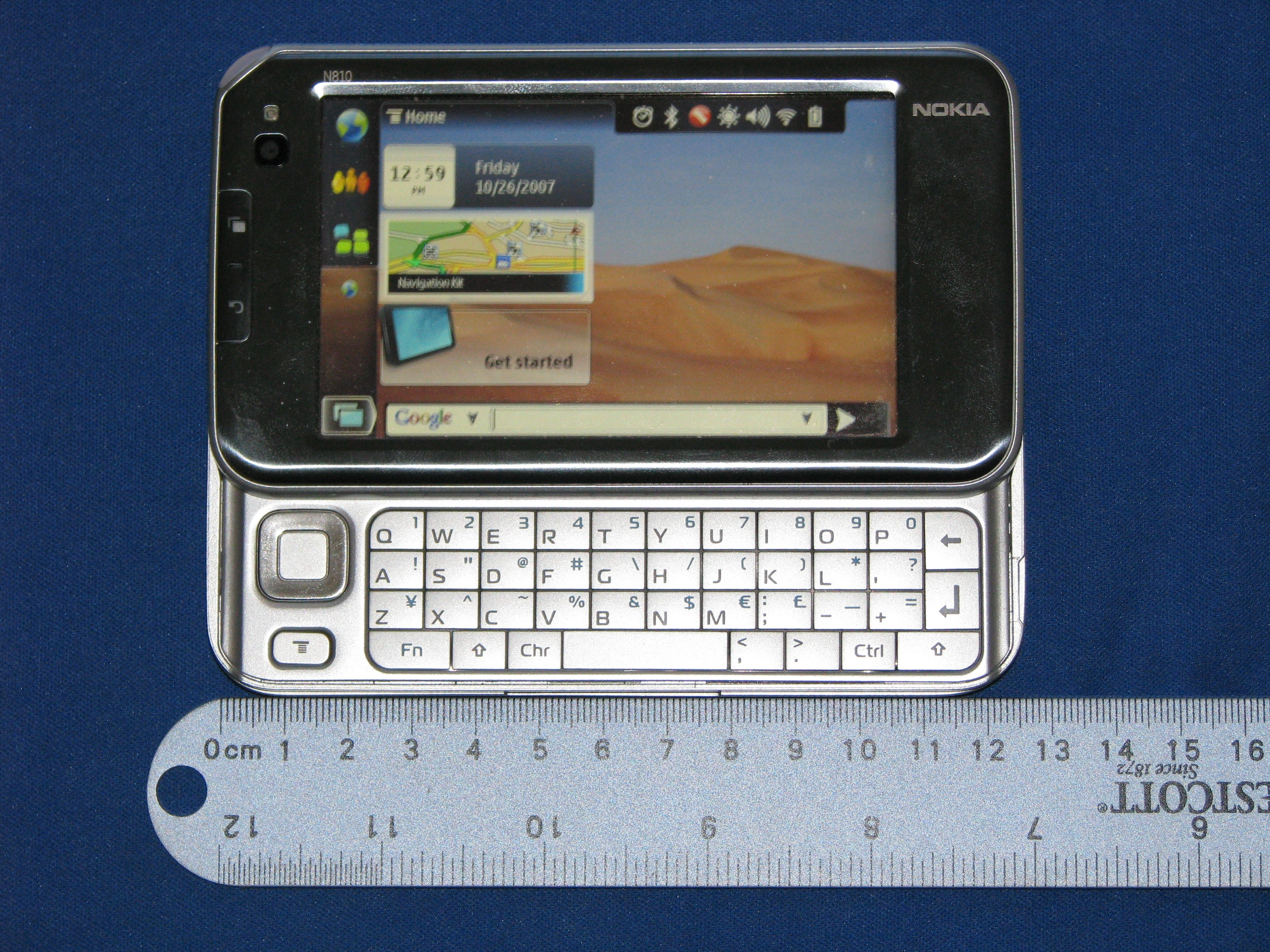 Nokia N810. Created by ThoughtFix of for Wikipedia. Free for use in all Wikipedia languages.